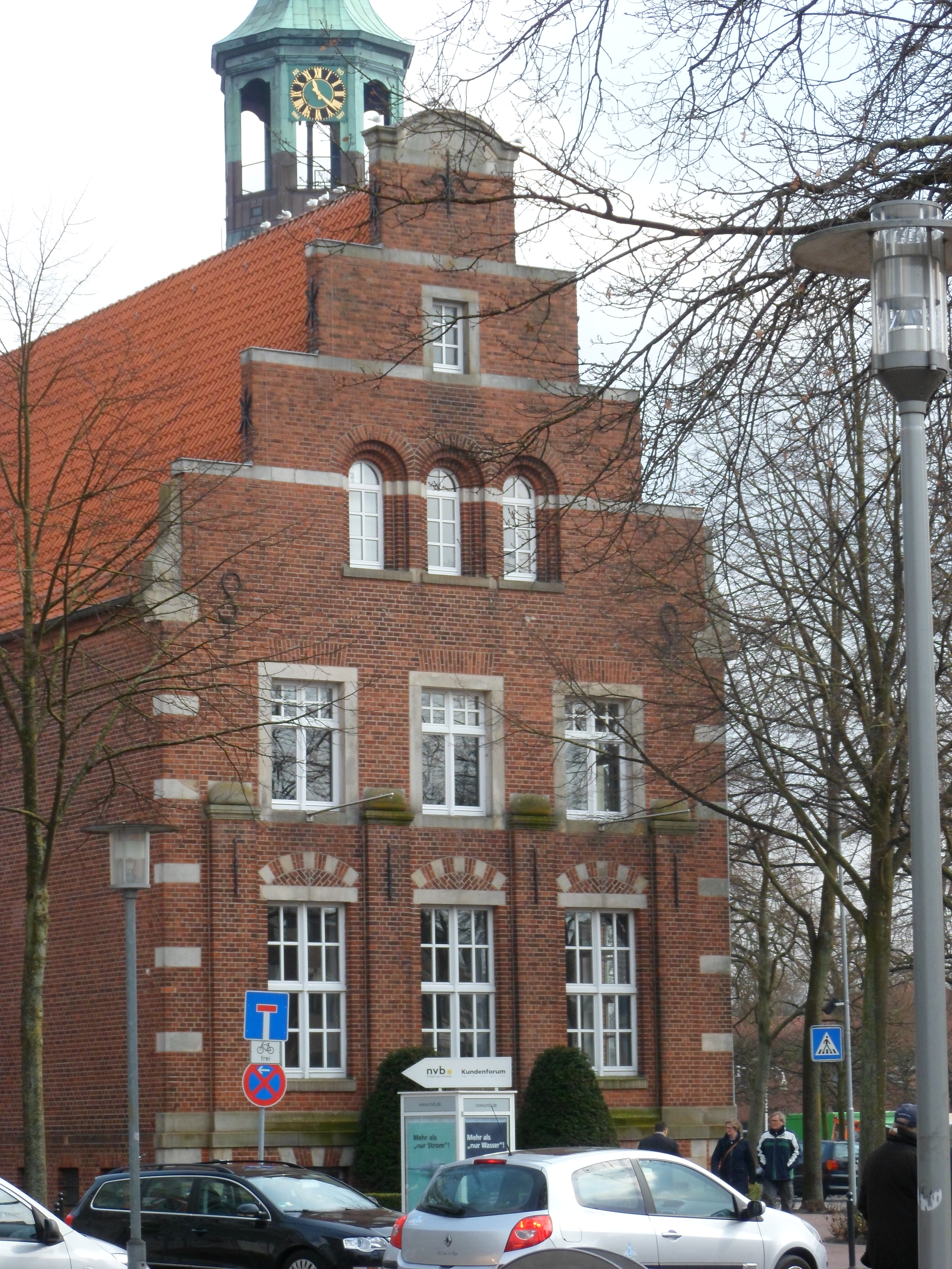 Altes Rathaus (Musikschule), Nordhorn